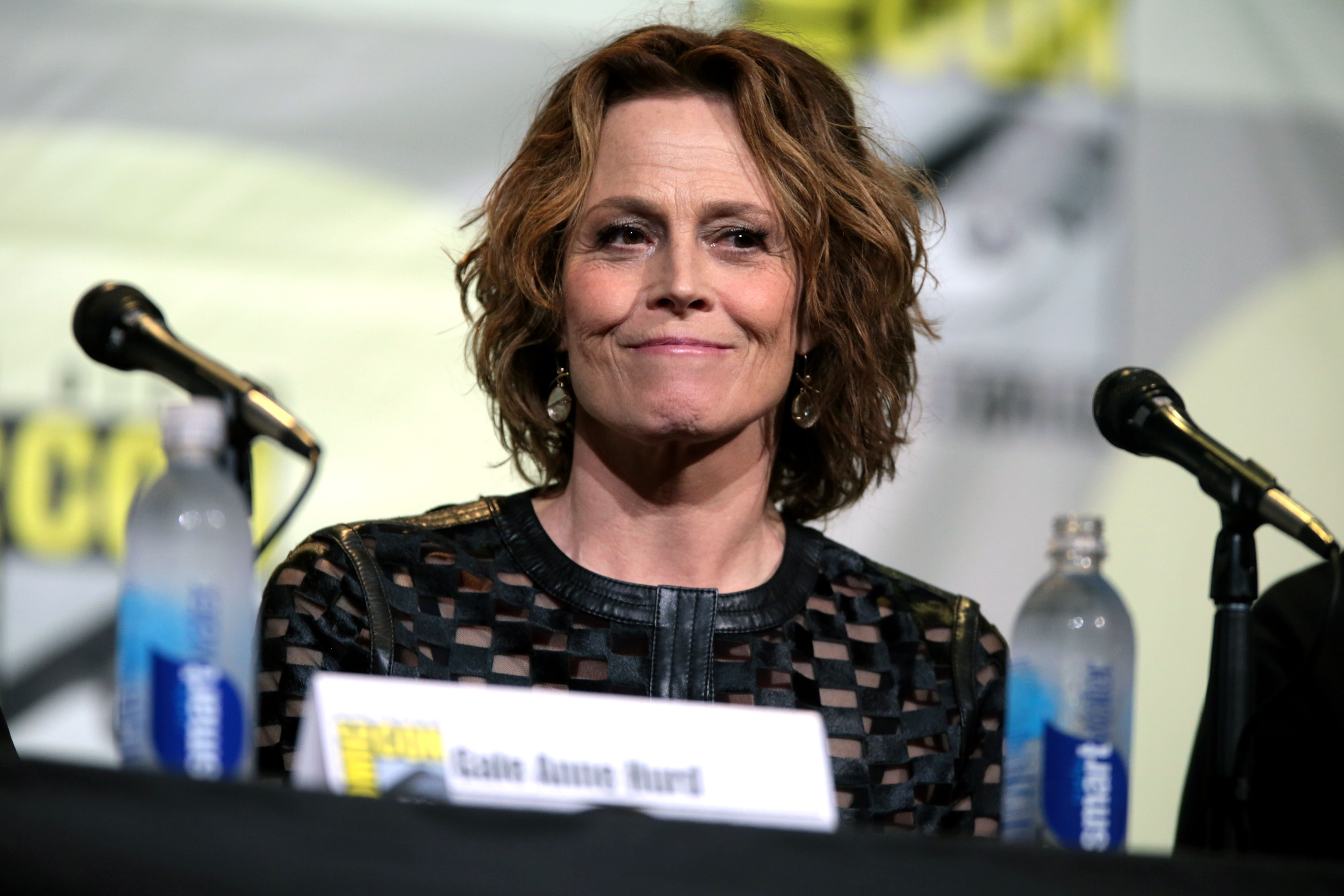 Sigourney Weaver speaking at the 2016 San Diego Comic Con International, for "Aliens: 30th Anniversary", at the San Diego Convention Center in San Diego, California.